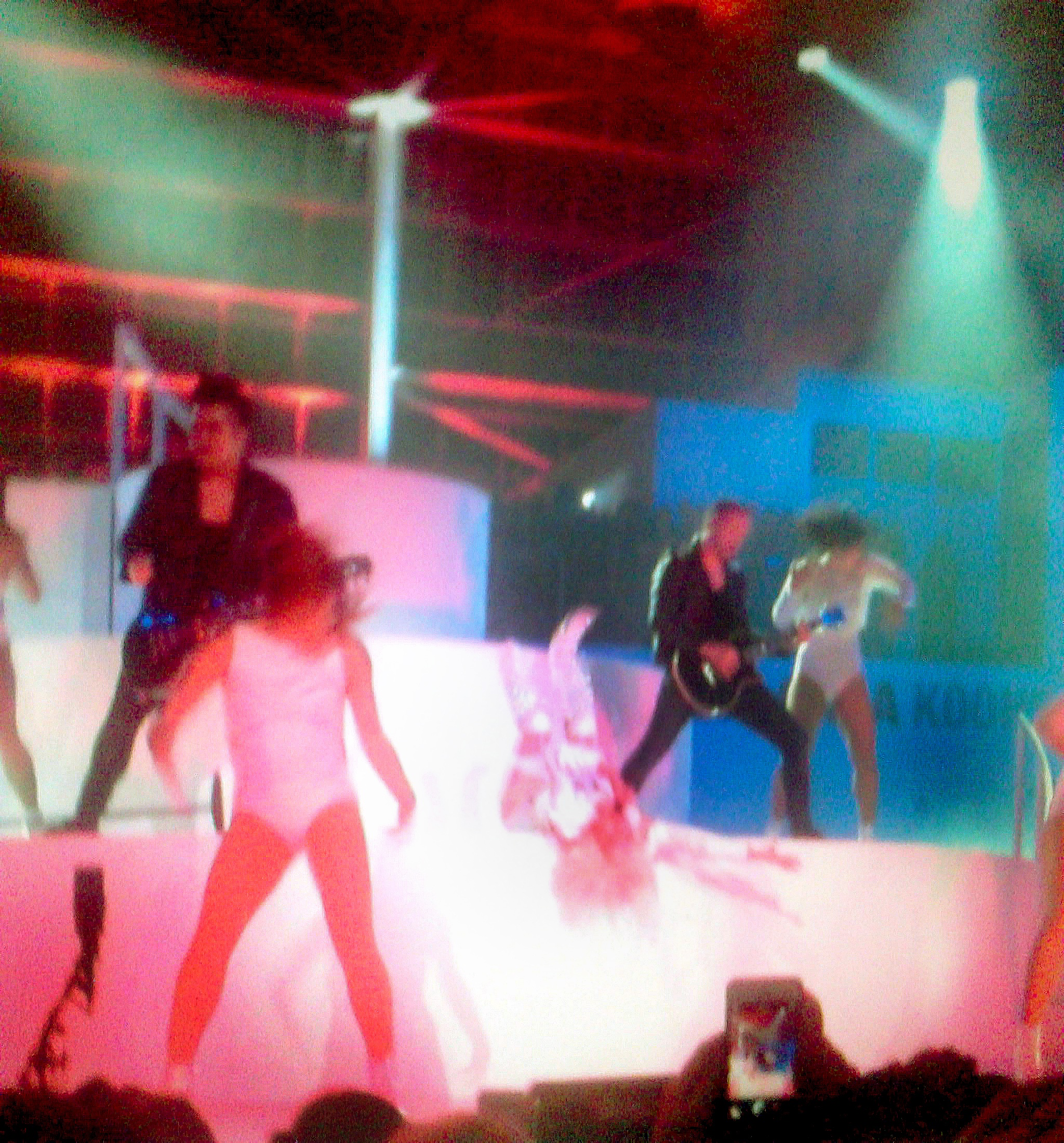 Lady Gaga in the ArtRave event